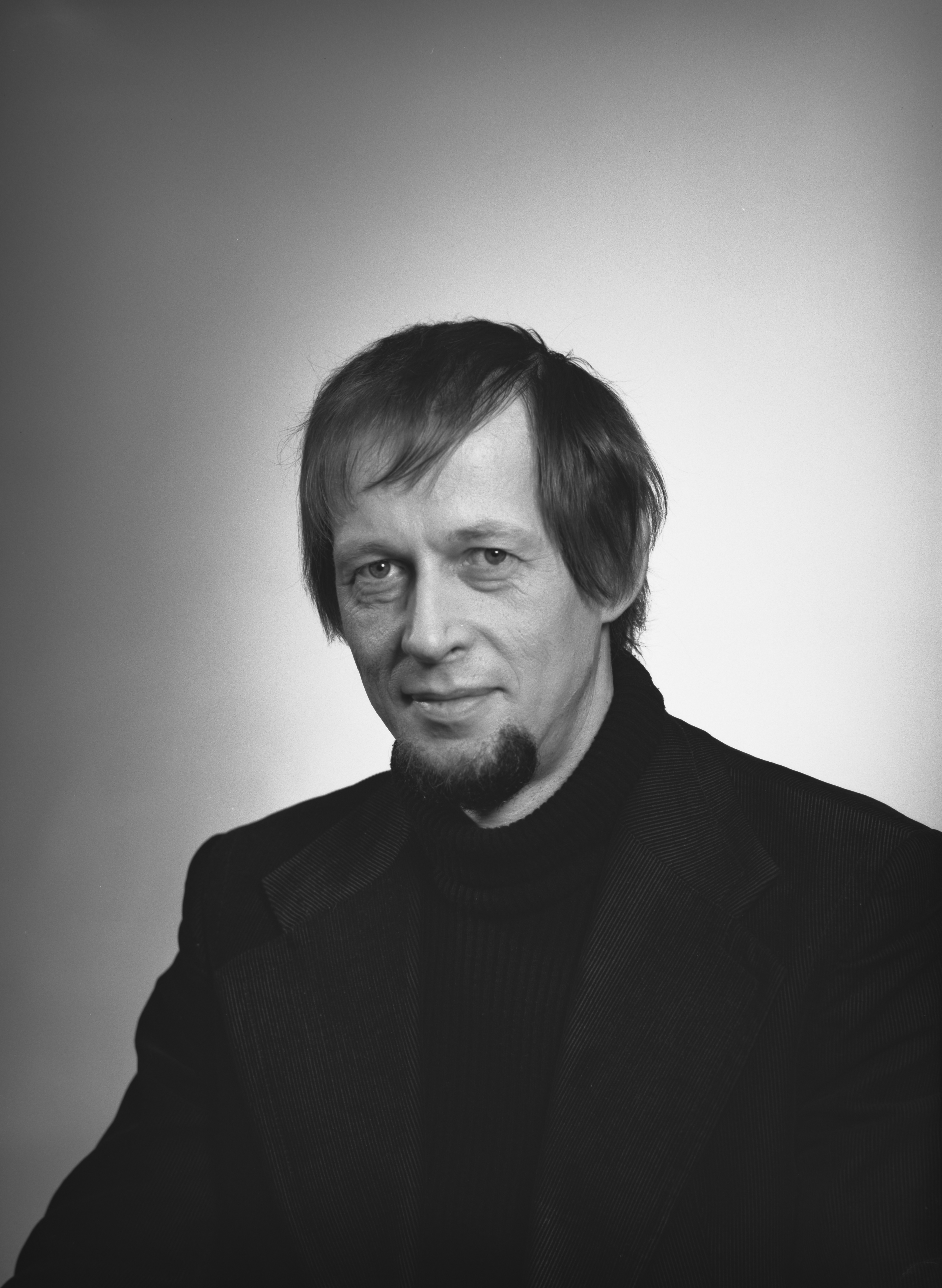 Photograph of the Finnish interior architect Ahti Taskinen (1937–).